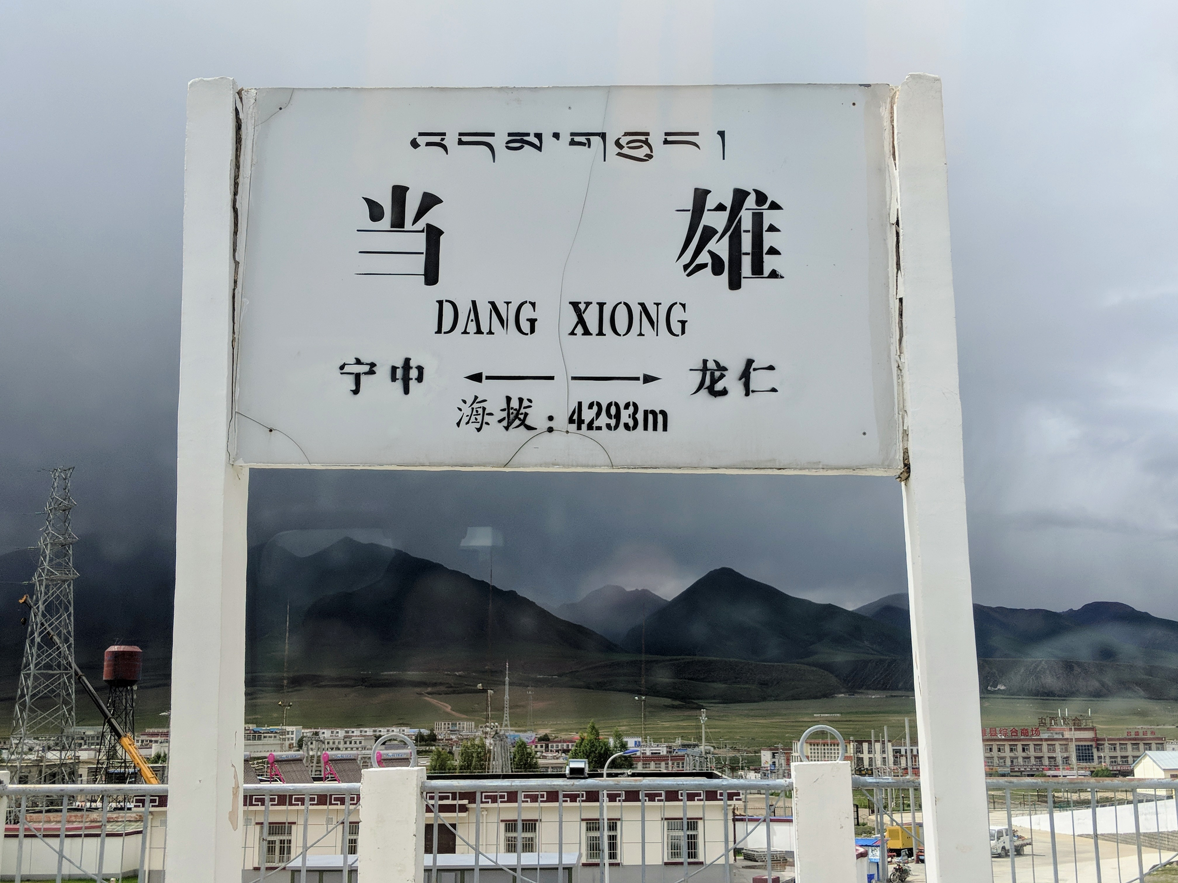 Damxung (Danxiong) station sign, Tibet